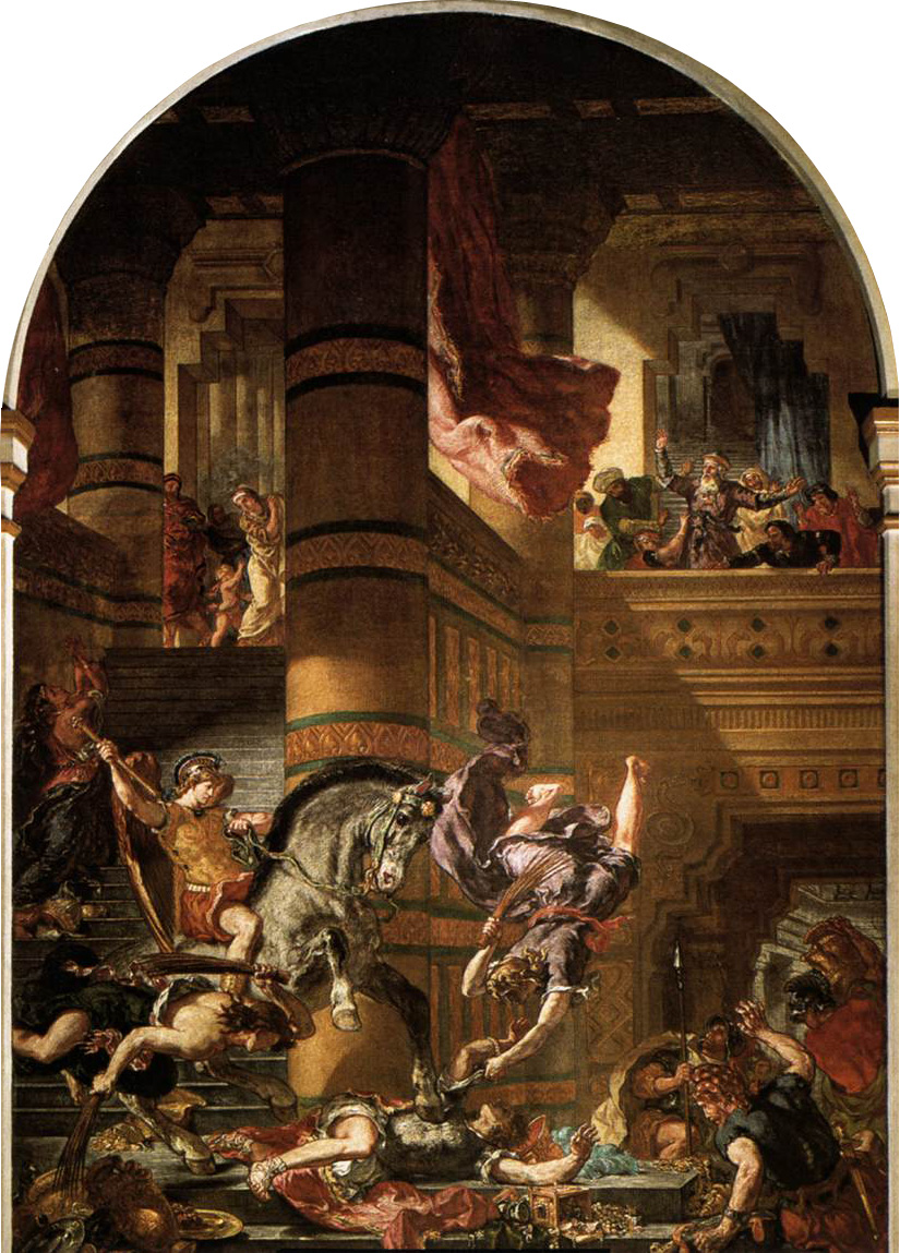 Eugène Delacroix - Heliodoros Driven from the Temple